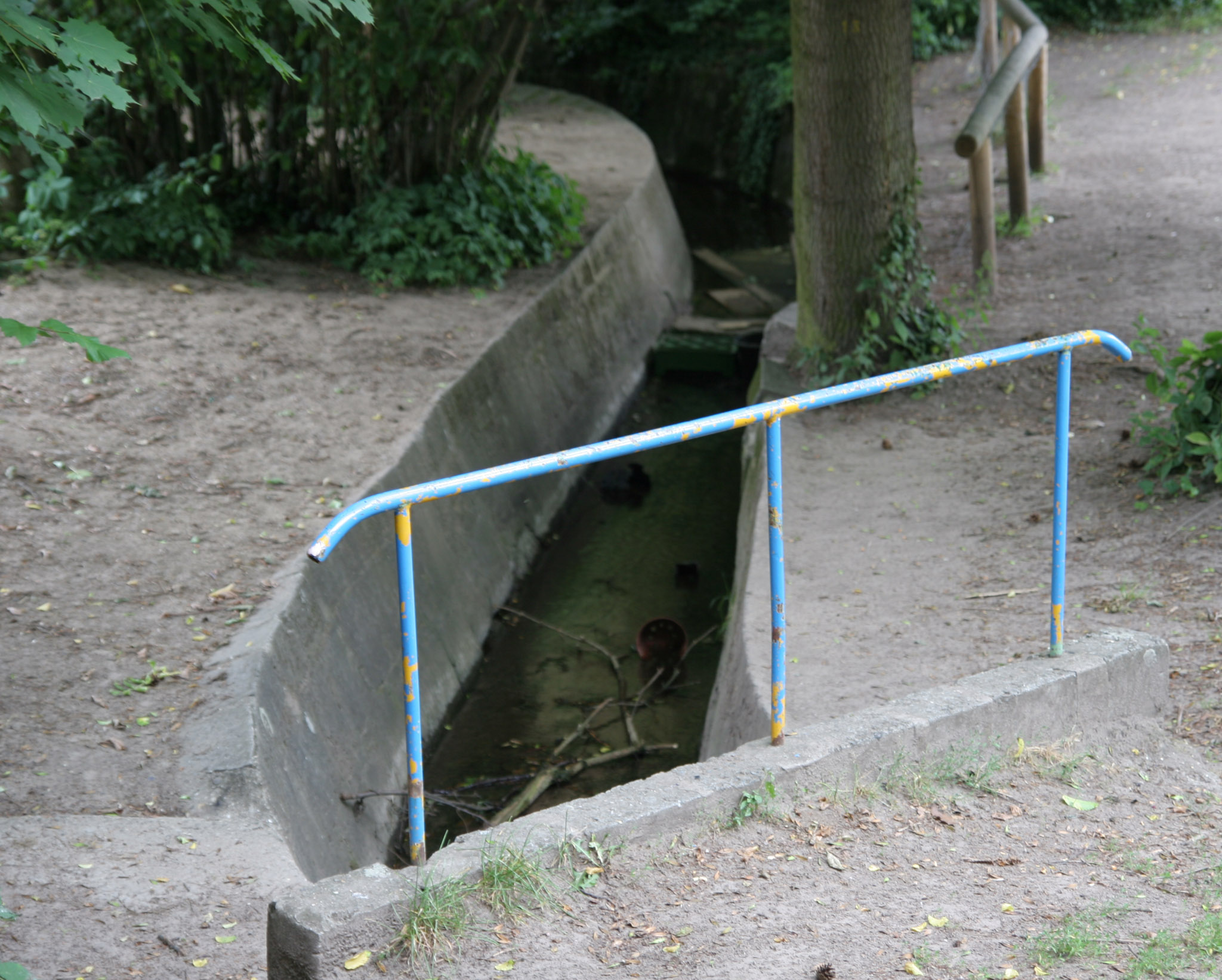 The creek Darmbach in the city of Darmstadt (Hesse, Germany)